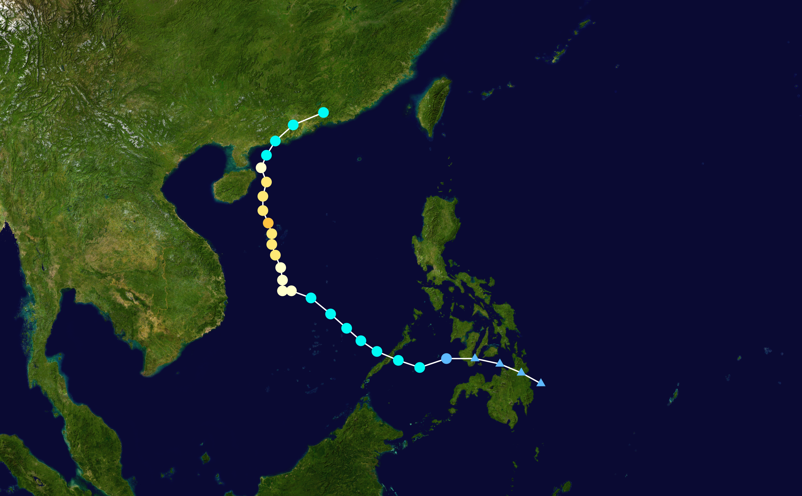 Track map of Typhoon Neoguri of the 2008 Pacific typhoon season. The points show the location of the storm at 6-hour intervals. The colour represents the storm's maximum sustained wind speeds as classified in the Saffir–Simpson scale (see below), and the shape of the data points represent the nature of the storm, according to the legend below. Saffir–Simpson scale Tropical depression≤38 mph≤62 km/h Category 3111–129 mph178–208 km/h Tropical storm39–73 mph63–118 km/h Category 4130–156 mph209–251 km/h Category 174–95 mph119–153 km/h Category 5≥157 mph≥252 km/h Category 296–110 mph154–177 km/h Unknown Storm type Tropical cyclone Subtropical cyclone Extratropical cyclone / Remnant low / Tropical disturbance / Monsoon depression